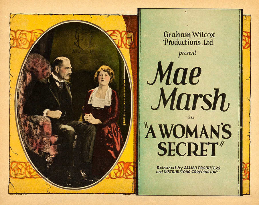 Flames of Passion American lobby card titled "A Woman's Secret"